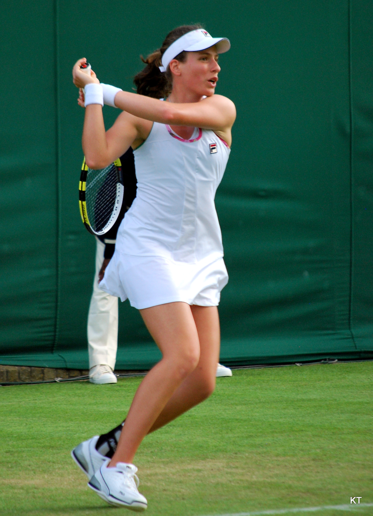 Johanna Konta during her first round match with Christina McHale, on Day 1 of Wimbledon 2012. McHale won 6-7, 6-2, 10-8.